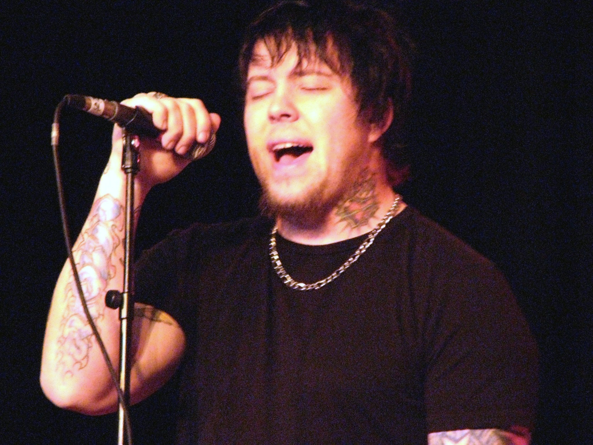 Paul McCoy, lead singer for the Christian rock band w:12 Stones and major contributor on the Evanescence song Bring Me to Life in concert with his band.